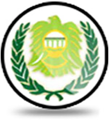 Emblem of the Asyut Governorate.